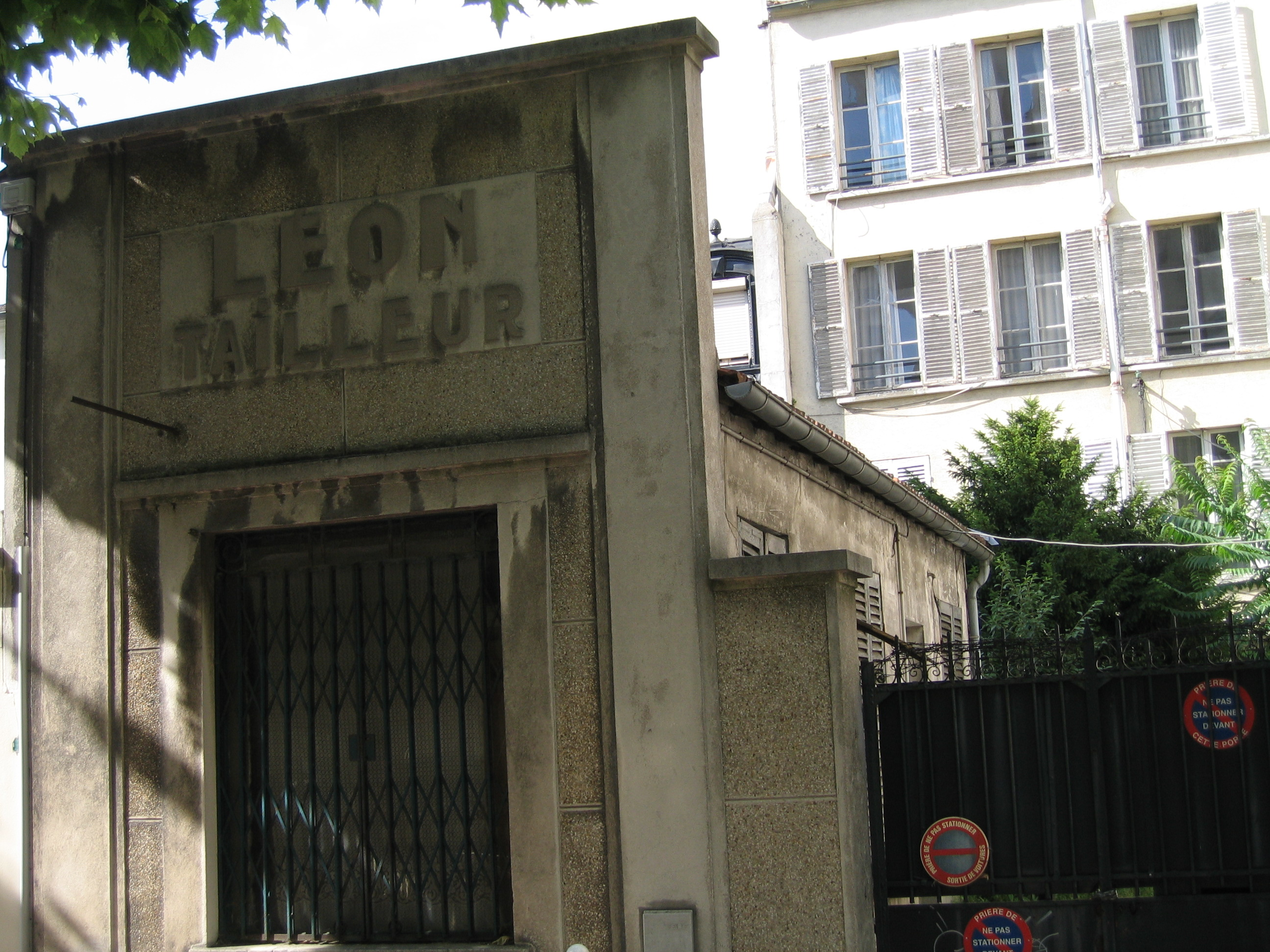 4 rue Louis Rolland in Montrouge where Raymond Federman lived. One can notice, on the left side, uncle Leo's shop sign.